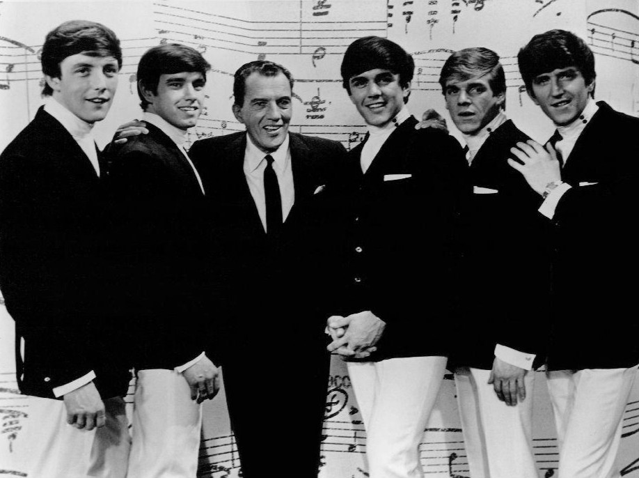 Photo of The Dave Clark Five with Ed Sullivan from an appearance on Sullivan's show. From left: Mike Smith, Denny Payton, Ed Sullivan, Dave Clark, Lenny Davidson, Rick Huxley.